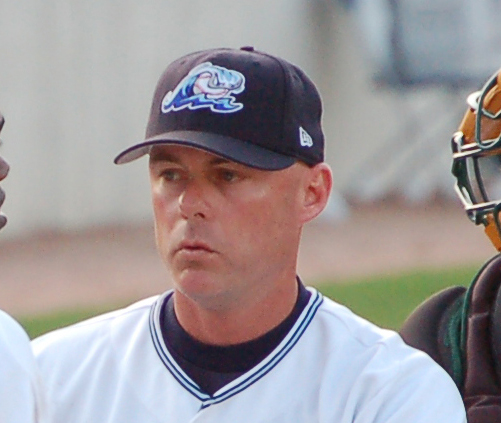 Matt Walbeck while manager of the West Michigan Whitecaps in 2006.